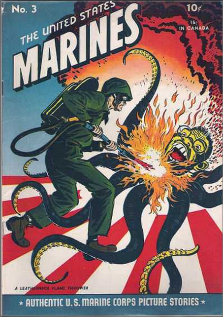 Comic Booker Cover of USMC #3